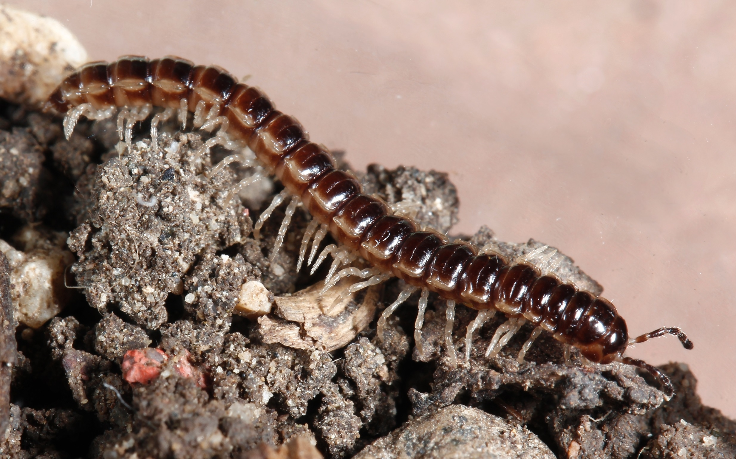 Oxidus gracilis, in laboratory, Lakewood, Colorado, United States